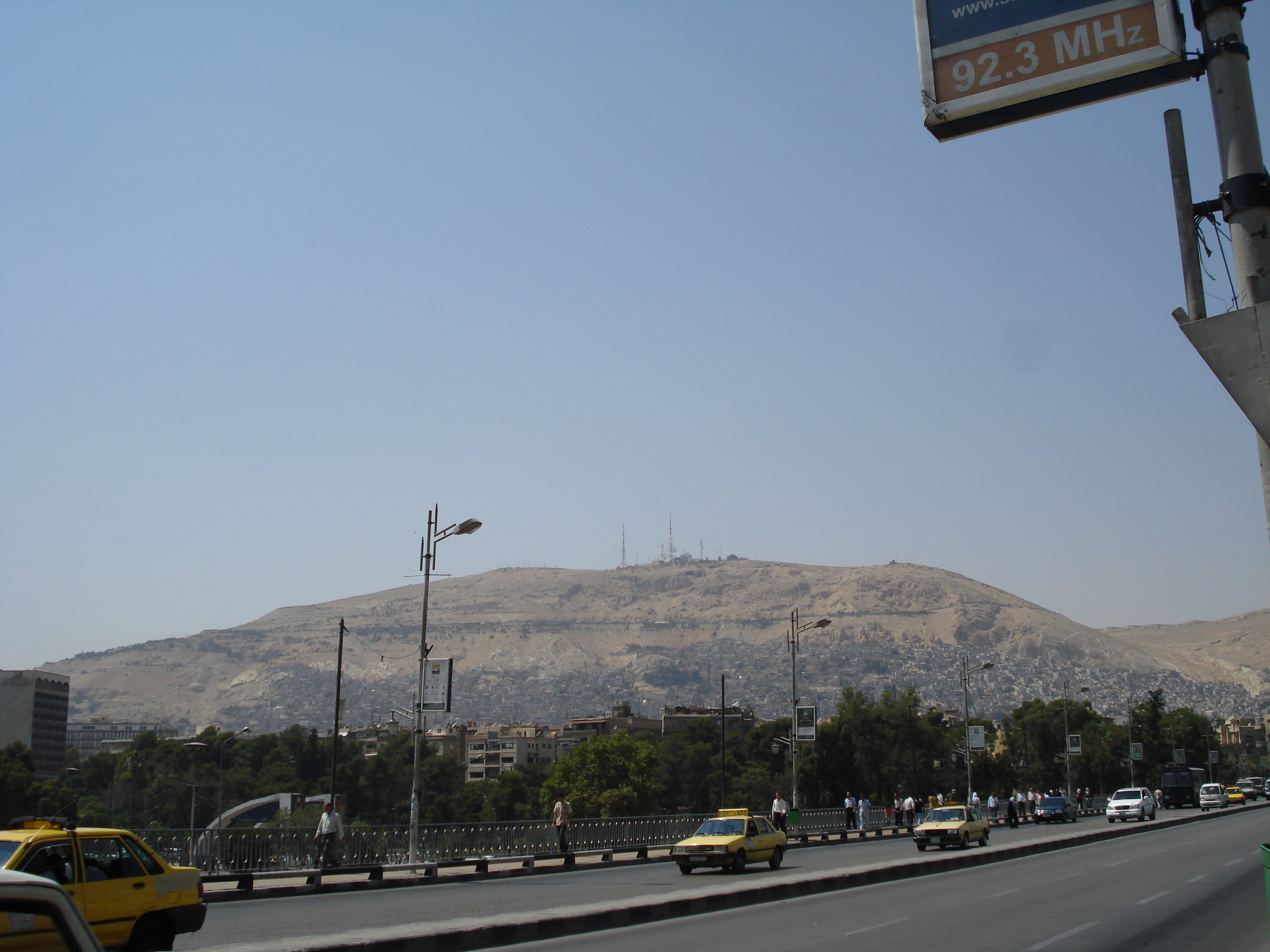 Mount Qasioun overlooking Damascus, Syria